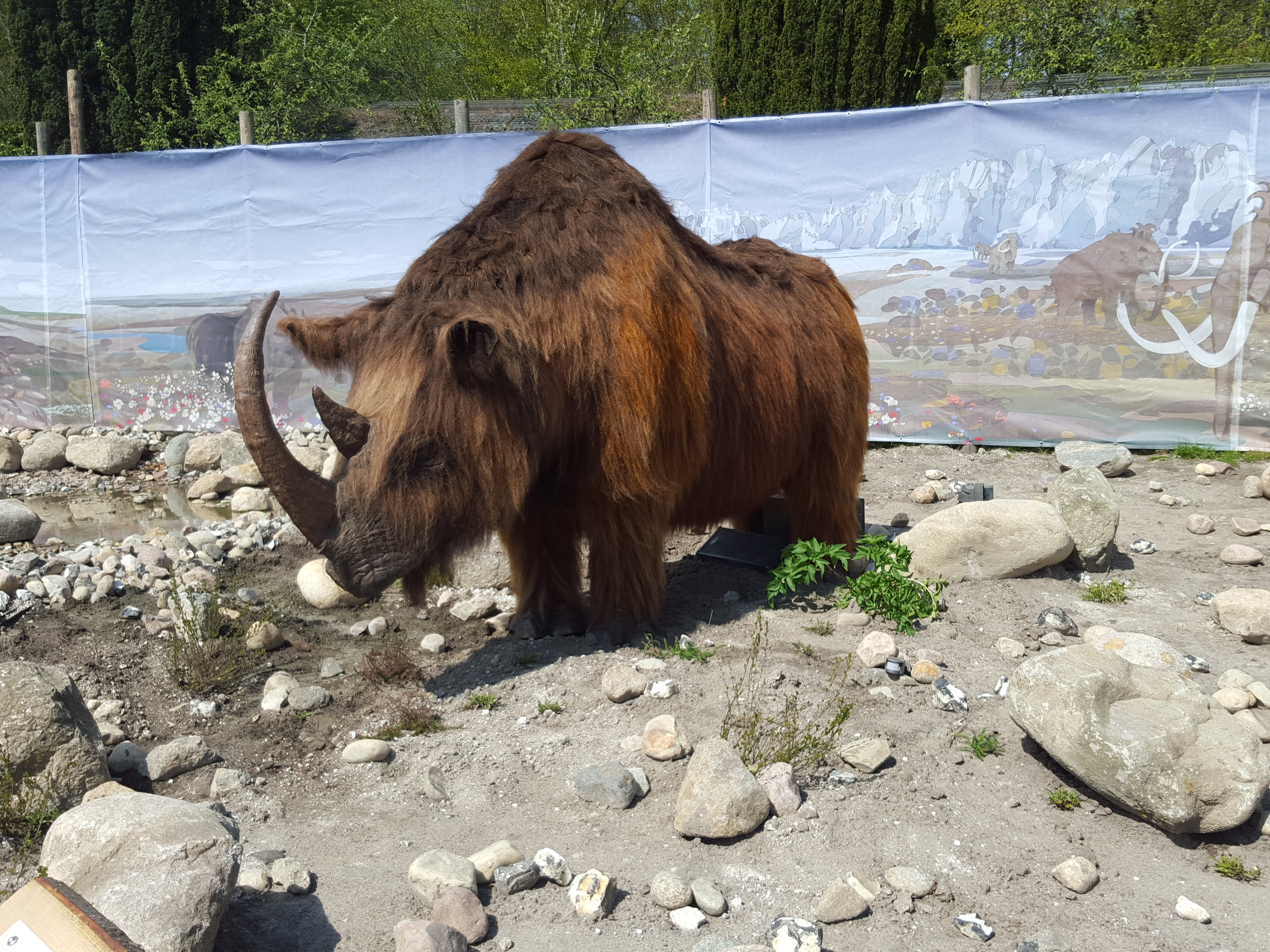 Wooly rhino at Aalborg Zoo Ice Age exhibition, May 2016